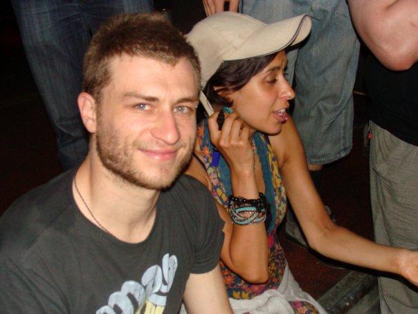 Dub Fx and Flower Fairy in Chelyabinsk.